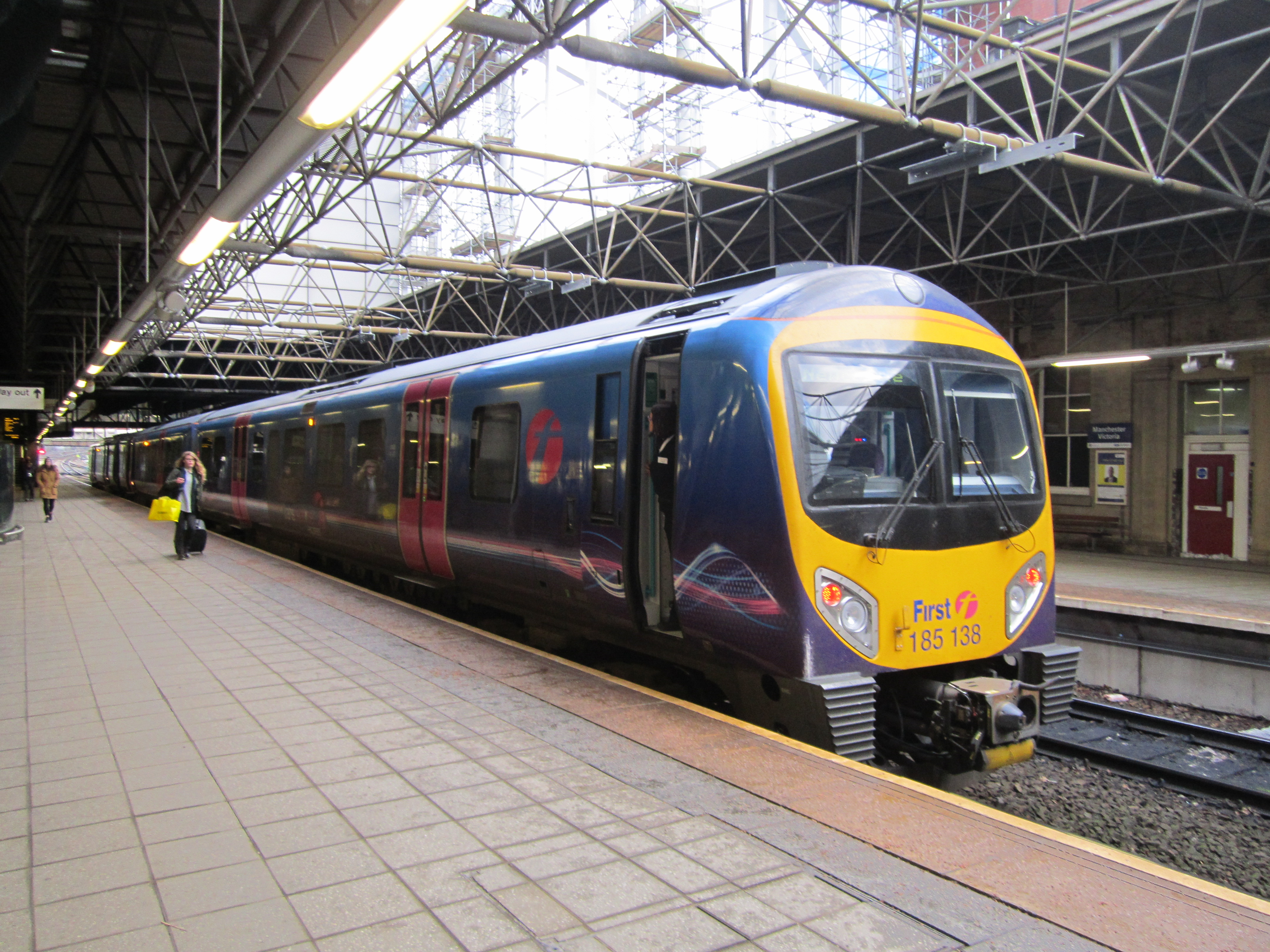 185138 at Manchester Victoria.